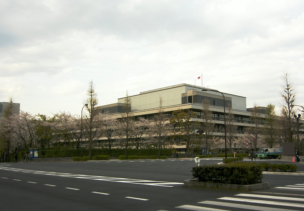 Japanese National Diet Library, Tokyo Japan